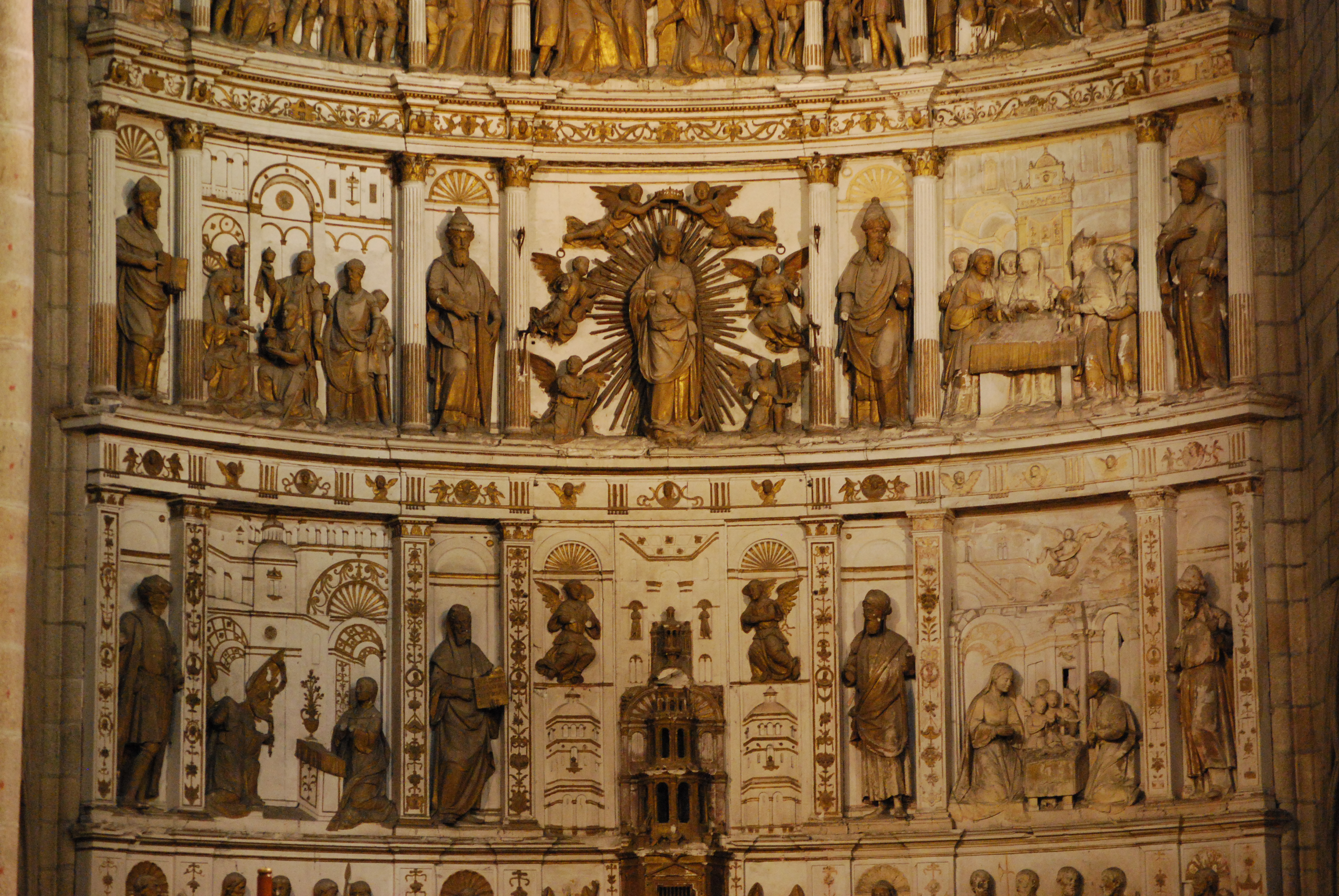 This file was uploaded for Wiki Loves Monuments in Portugal with the unique identifier 71096.